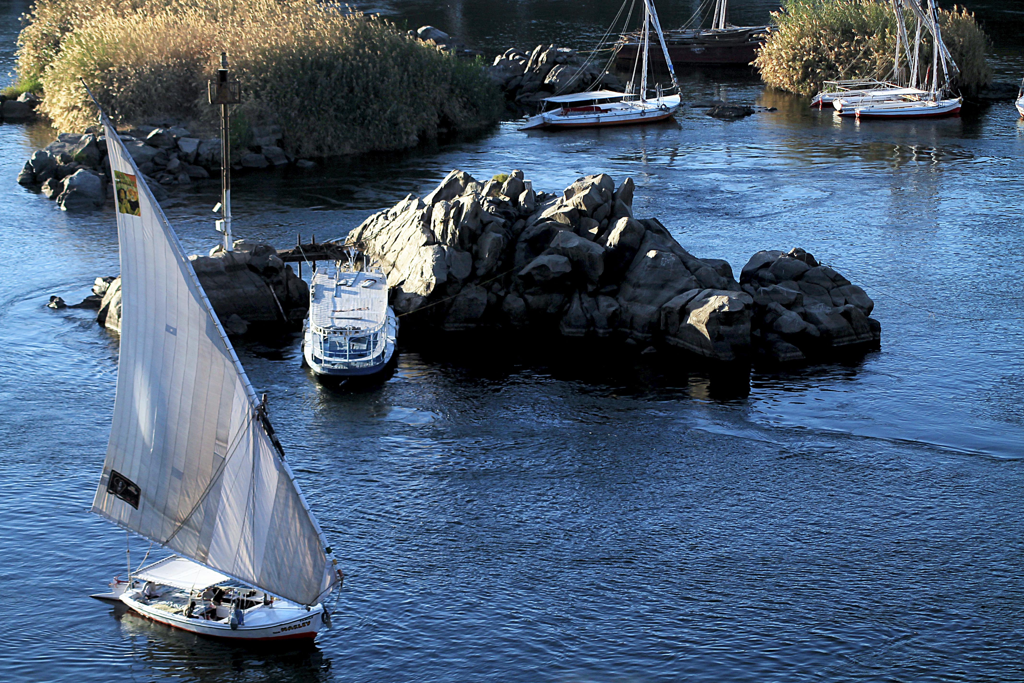 The Nile, a north-flowing river in Africa, is among the world’s longest waterways, famed for its ancient history and archaeological sites. The fertile Upper Nile gave rise to early Egyptian civilization and is still home to the Great Pyramids and Sphinx of Giza near Cairo. Sightseeing boats from luxury liners to traditional felucca sailboats also cruise between the cities of Luxor and Aswan.